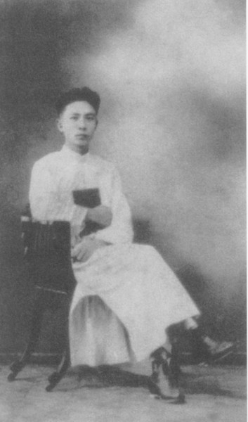 Shang Yue, Chinese historian, teacher of Kim Il Sung